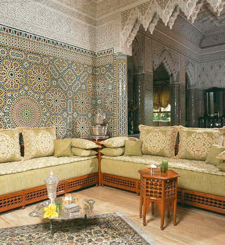 House with Moroccan frills.